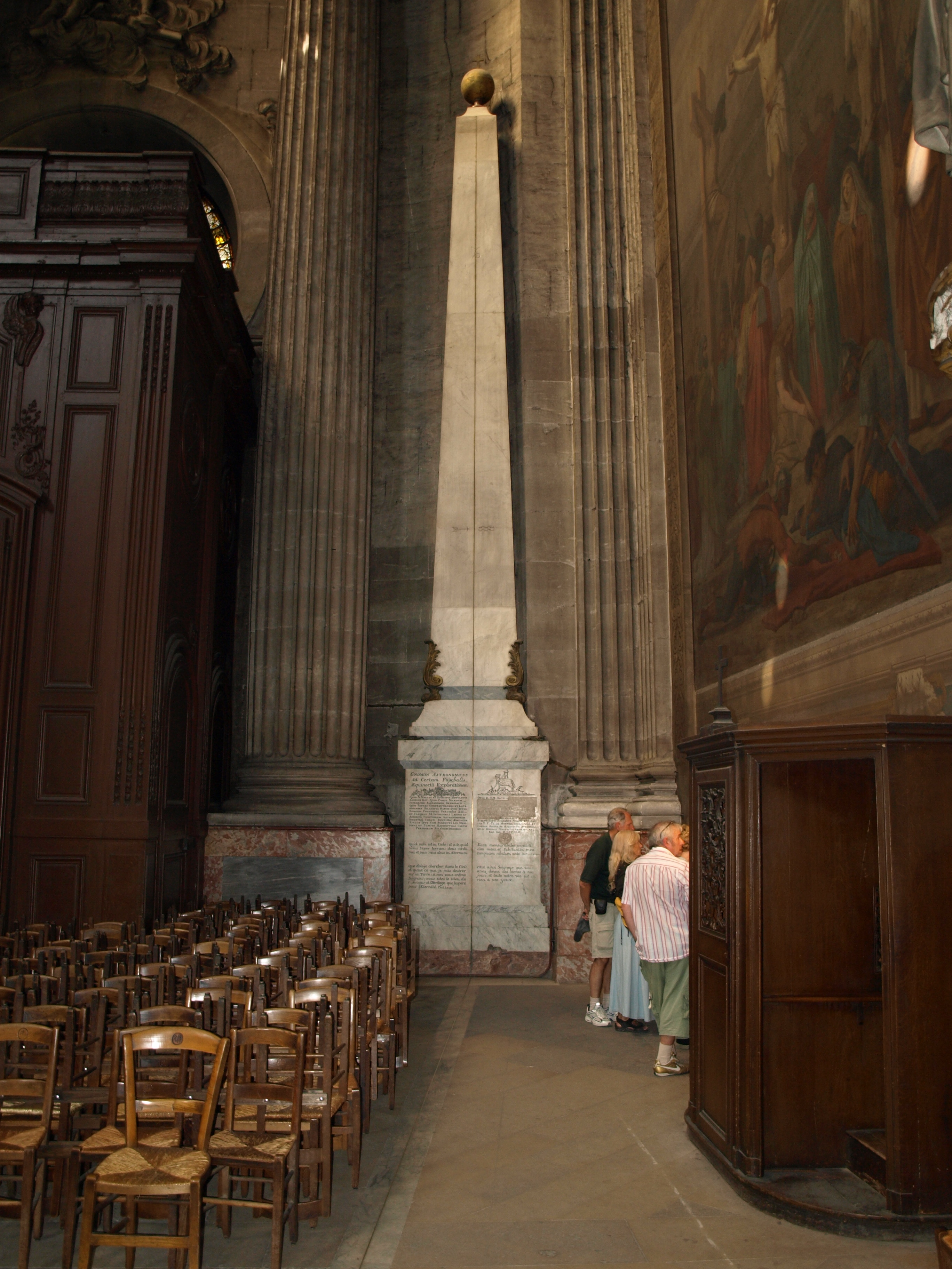 Gnomon in Église St. Sulpice (Paris, France)